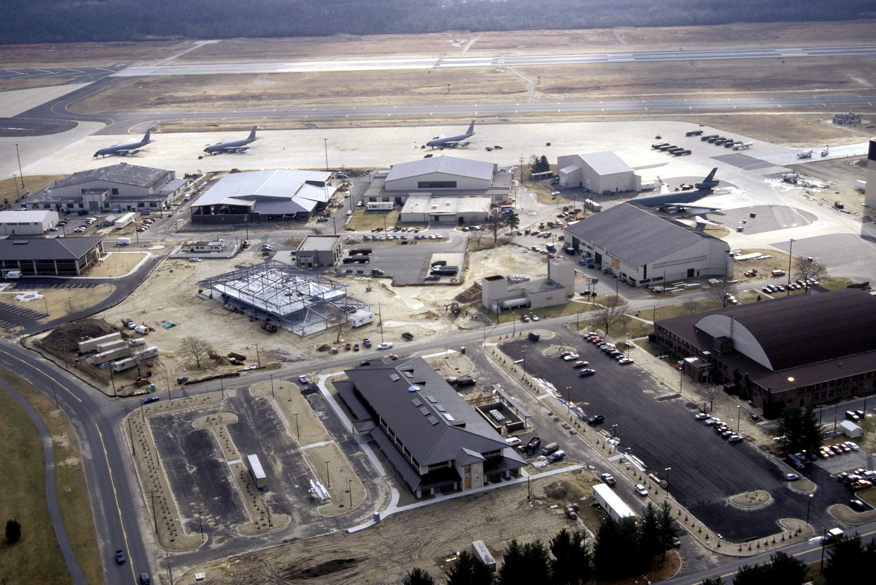 ID: DFSD0406445 970206F0007M004 An aerial view at McGuire Air Force Base (AFB) New Jersey (NJ) showing a construction project underway and US Air Force (USAF) KC-135 Stratotanker aircraft and USAF KC-10A Extender aircraft spotted on the flight pads. Location: MCGUIRE AIR FORCE BASE, NEW JERSEY (NJ) UNITED STATES OF AMERICA (USA).